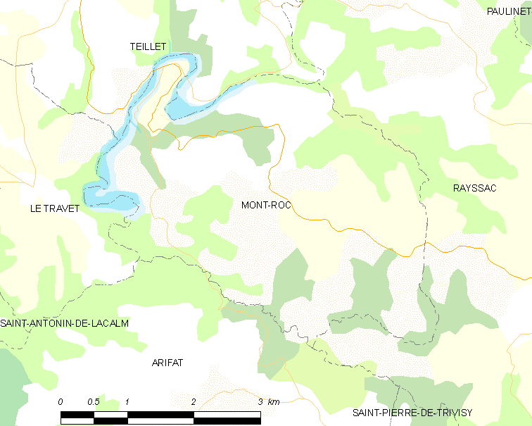 Map commune FR insee code 81183.png - Mont-Roc